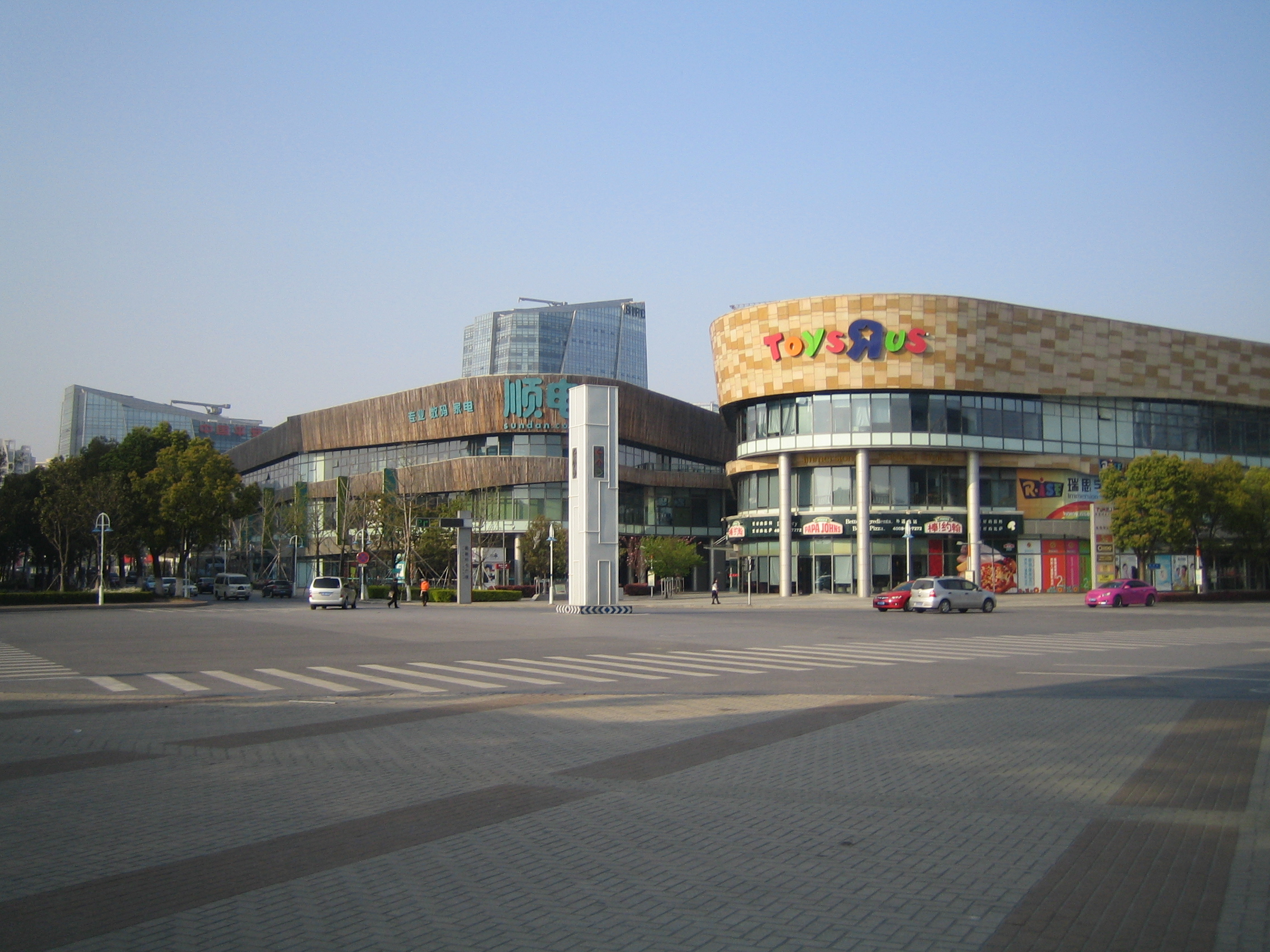 A Sundan Store and a Toys "R" Us Store located in Suzhou Times Square, taken in 2013.